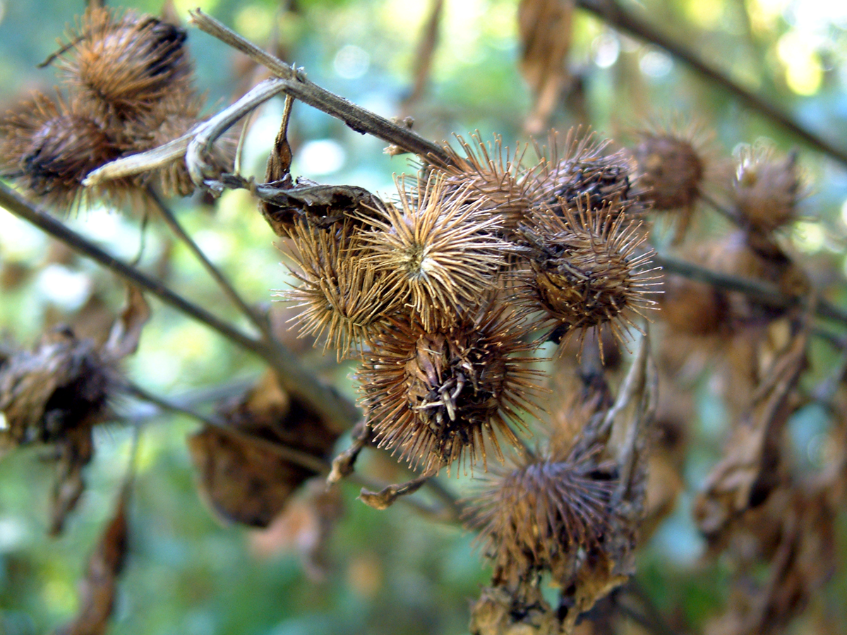 Burrs in Warren County, Indiana.